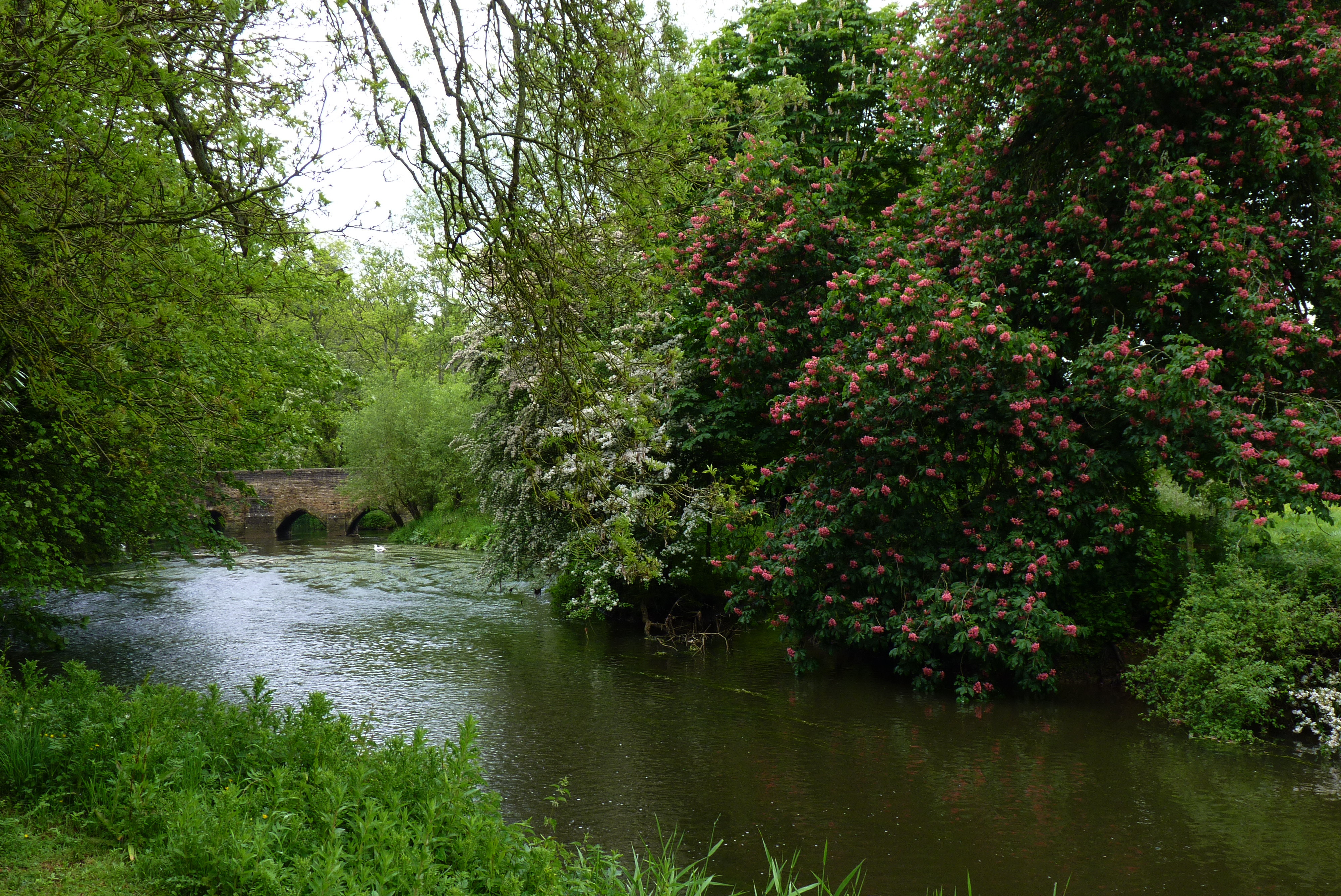 Park of Rousham House, created 1738 by William Kent. The river Cherwell is the natural border.